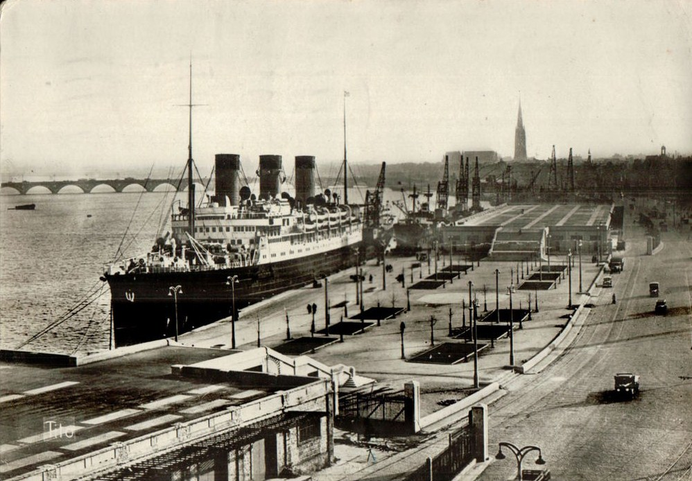 The Massilia liner in the harbour of Bordeaux (France) circa 1930.